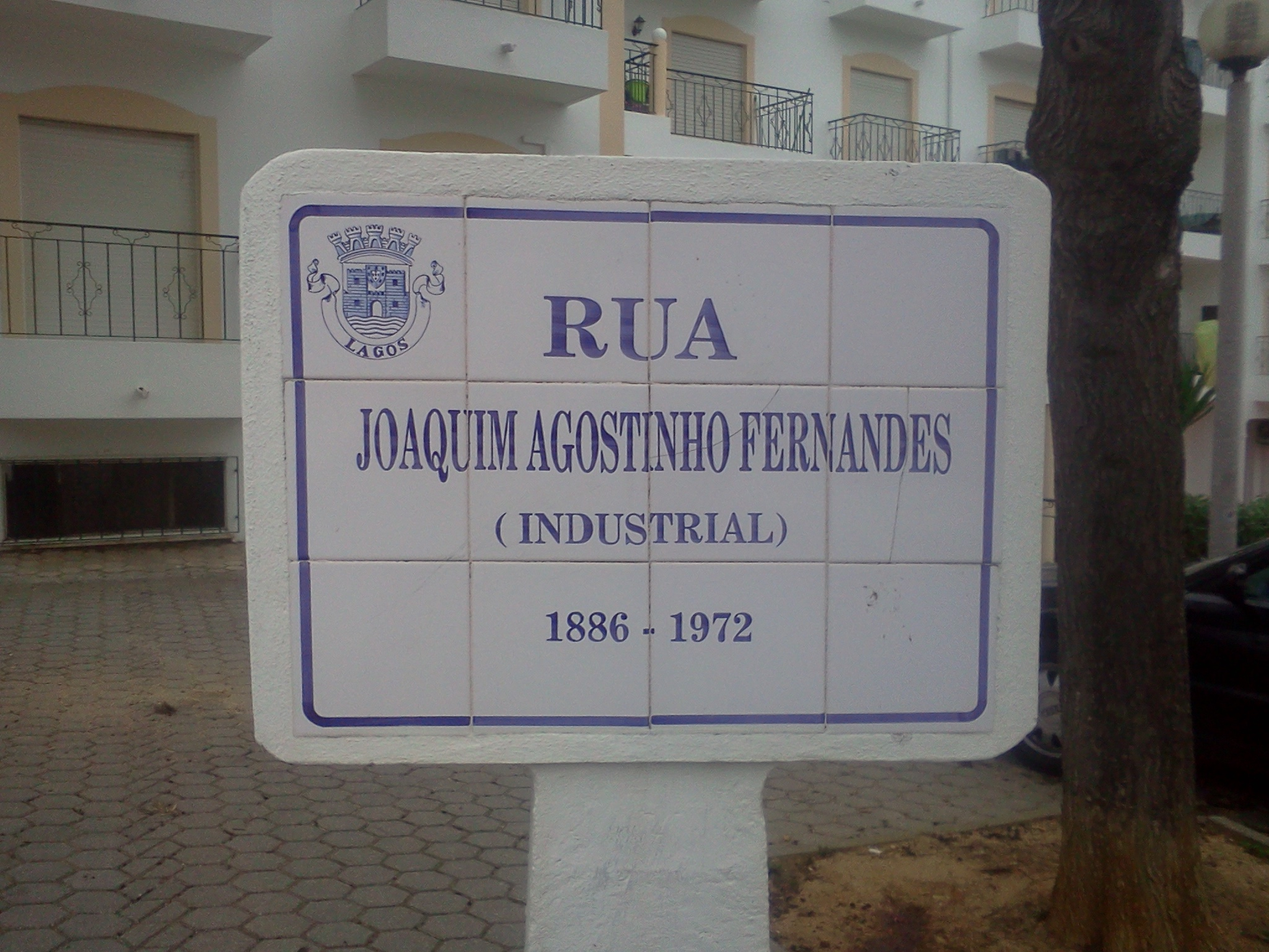 Street sign of Rua Joaquim Agostinho Fernandes, in the city of Lagos, in southern Portugal.